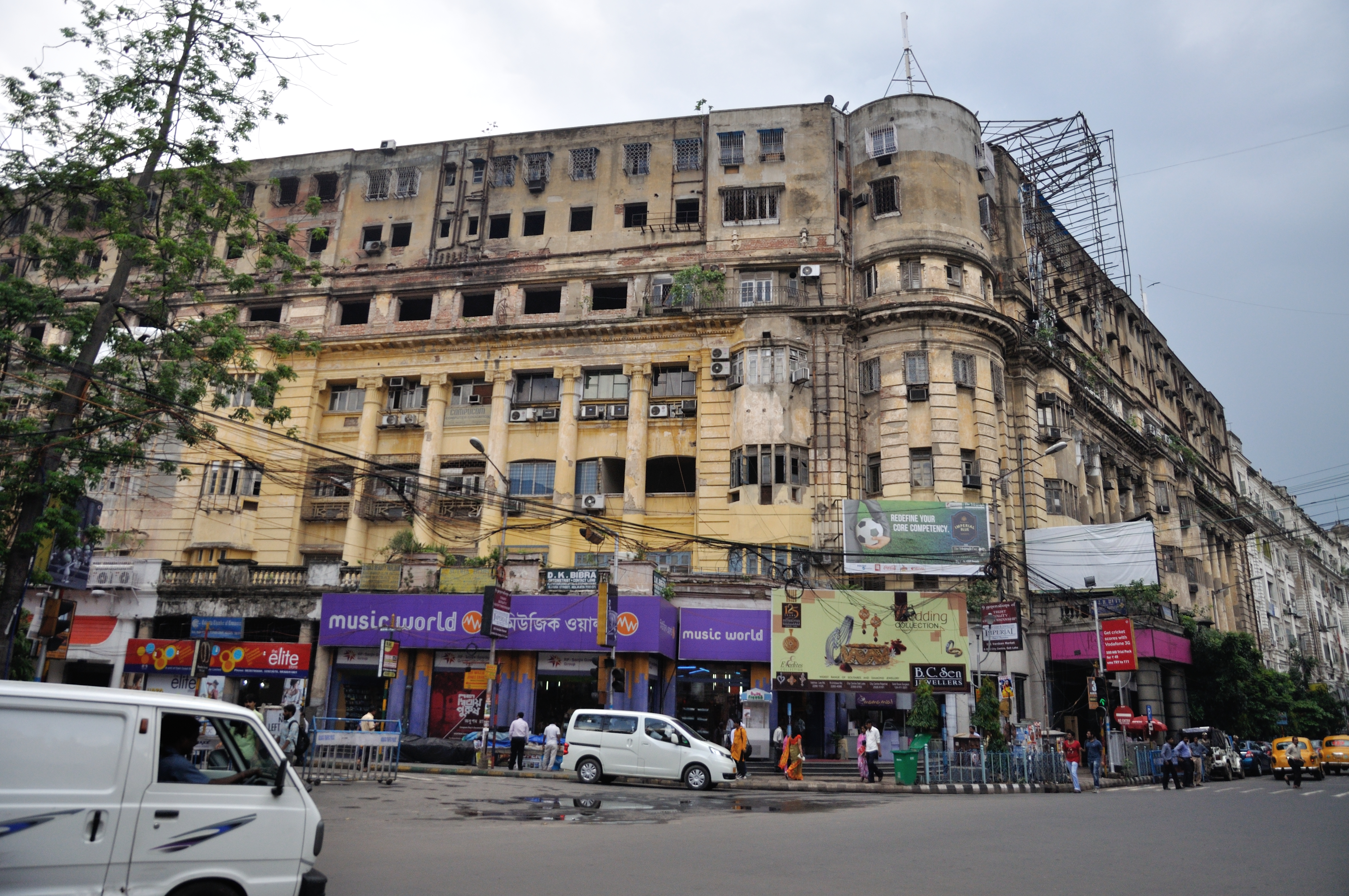 Photographed in Kolkata.